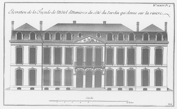 Hotel d'Humières (jardin), 88/90 rue de Lille, 280 Boulevard Saint-Germain, VIIe arrondissement, Paris